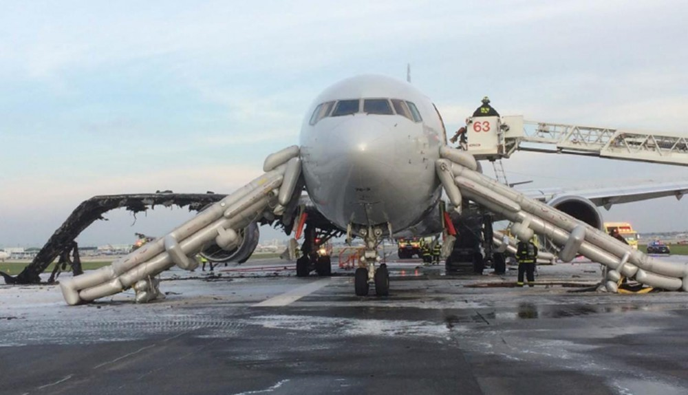 American Airlines Flight 383（N345AN）wreckage4